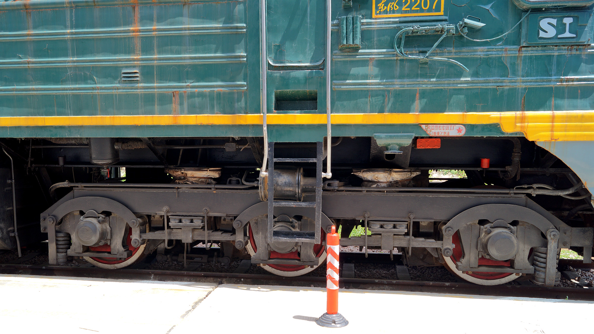 China Railways DF2207 diesel locomotive displayed Luohu District, Shenzhen.